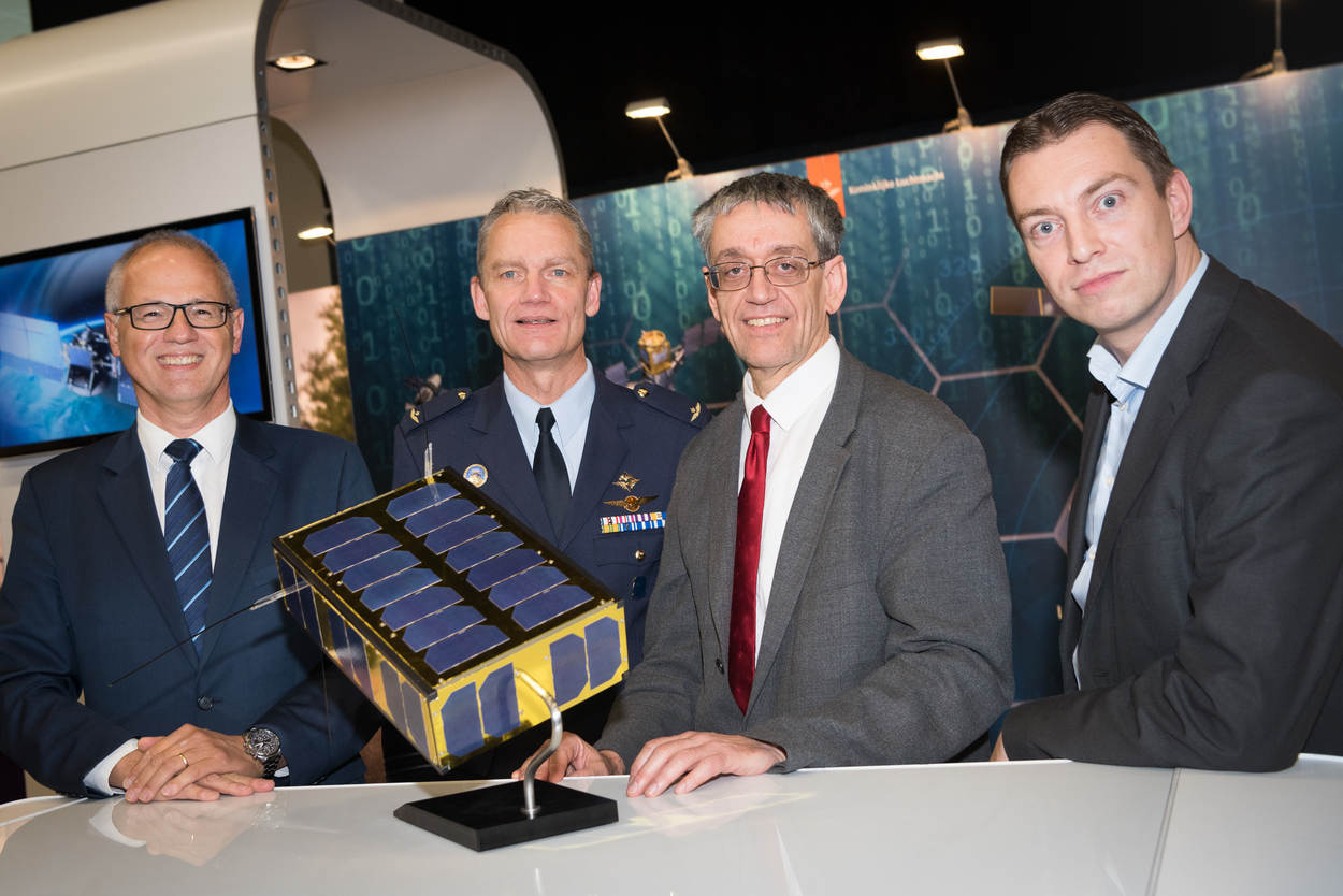 The representatives of the 4 participating parties; the Royal Netherlands Airforce, ISIS Space Delft, National Aerospace Laboratory and TU Delft, with a model of the Brik-II satellite.